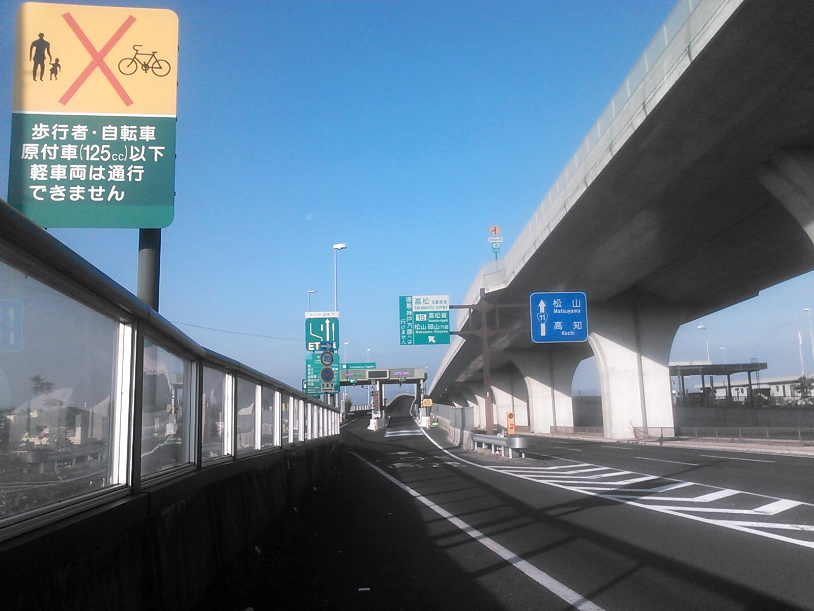 Takamatsu-higashi InterChange, on Takamatsu Expressway, and Takamatsu-higashi Bypass, on Route11 at Maeda-higashimachi, Takamatsu-city, Kagawa-pref. Japan.